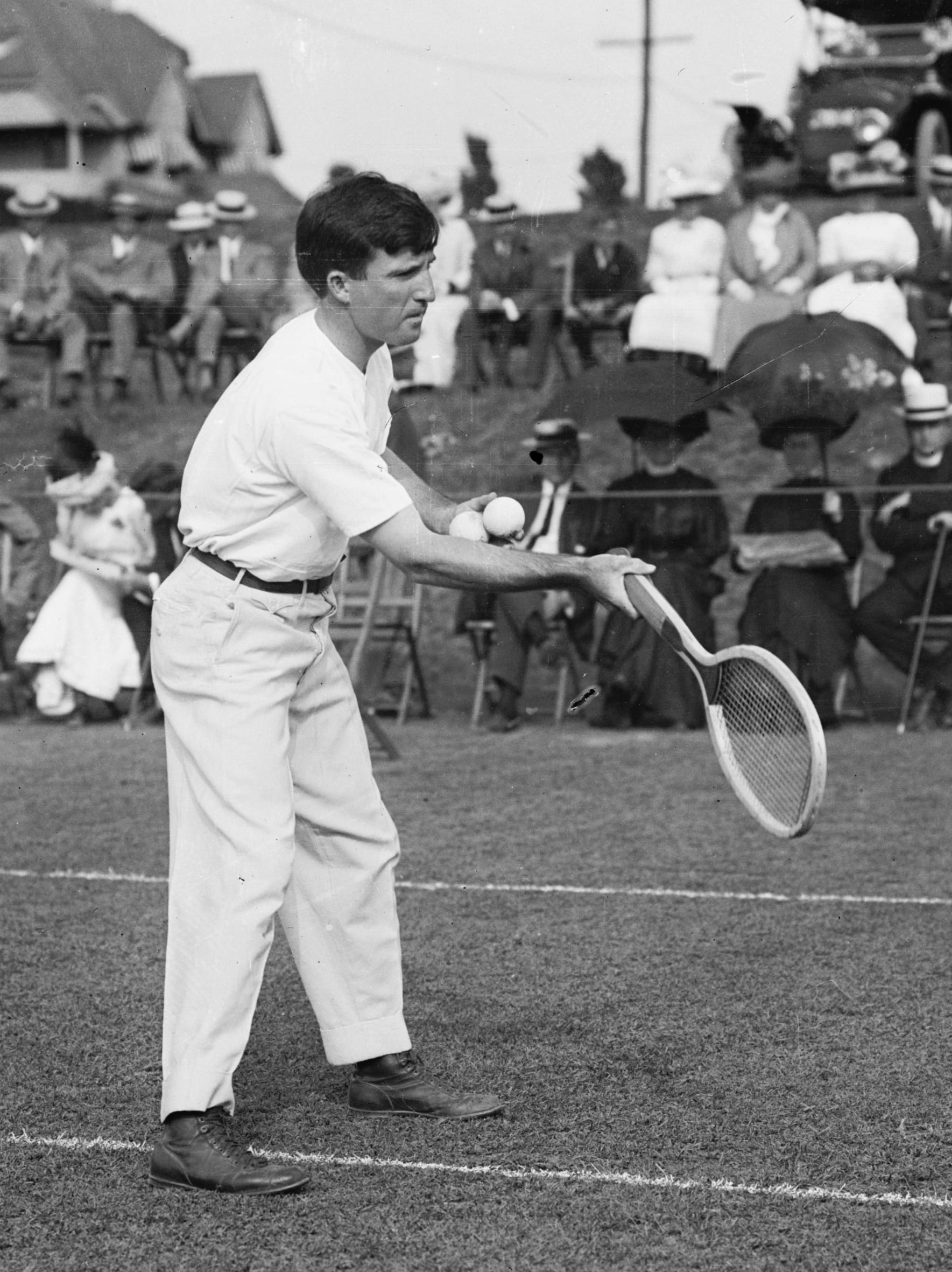 Tom Bundy